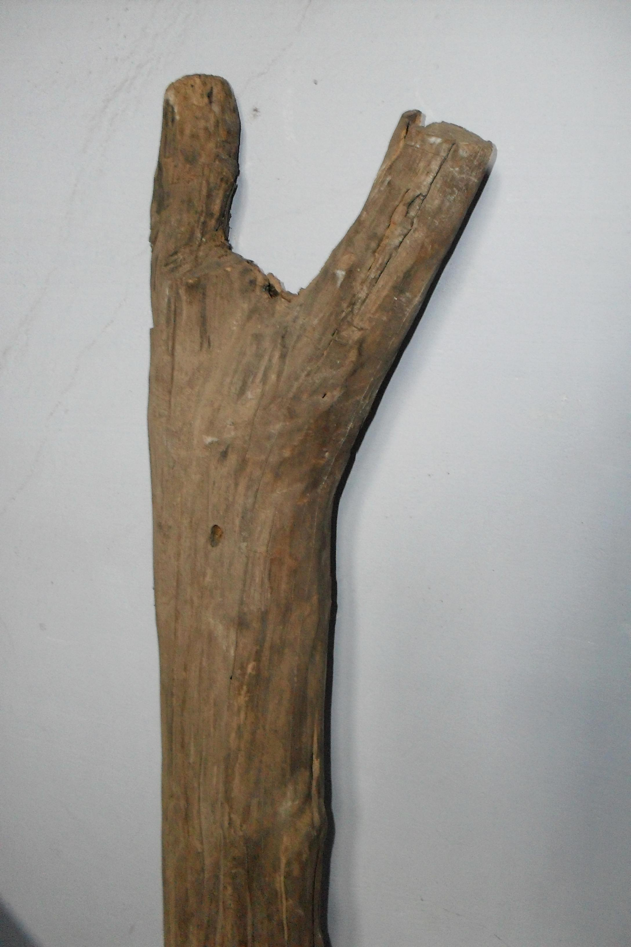 a natural wooden branch which is commonly used (Viz 'KAVAI')for construction in rural areas of Tamil Nadu